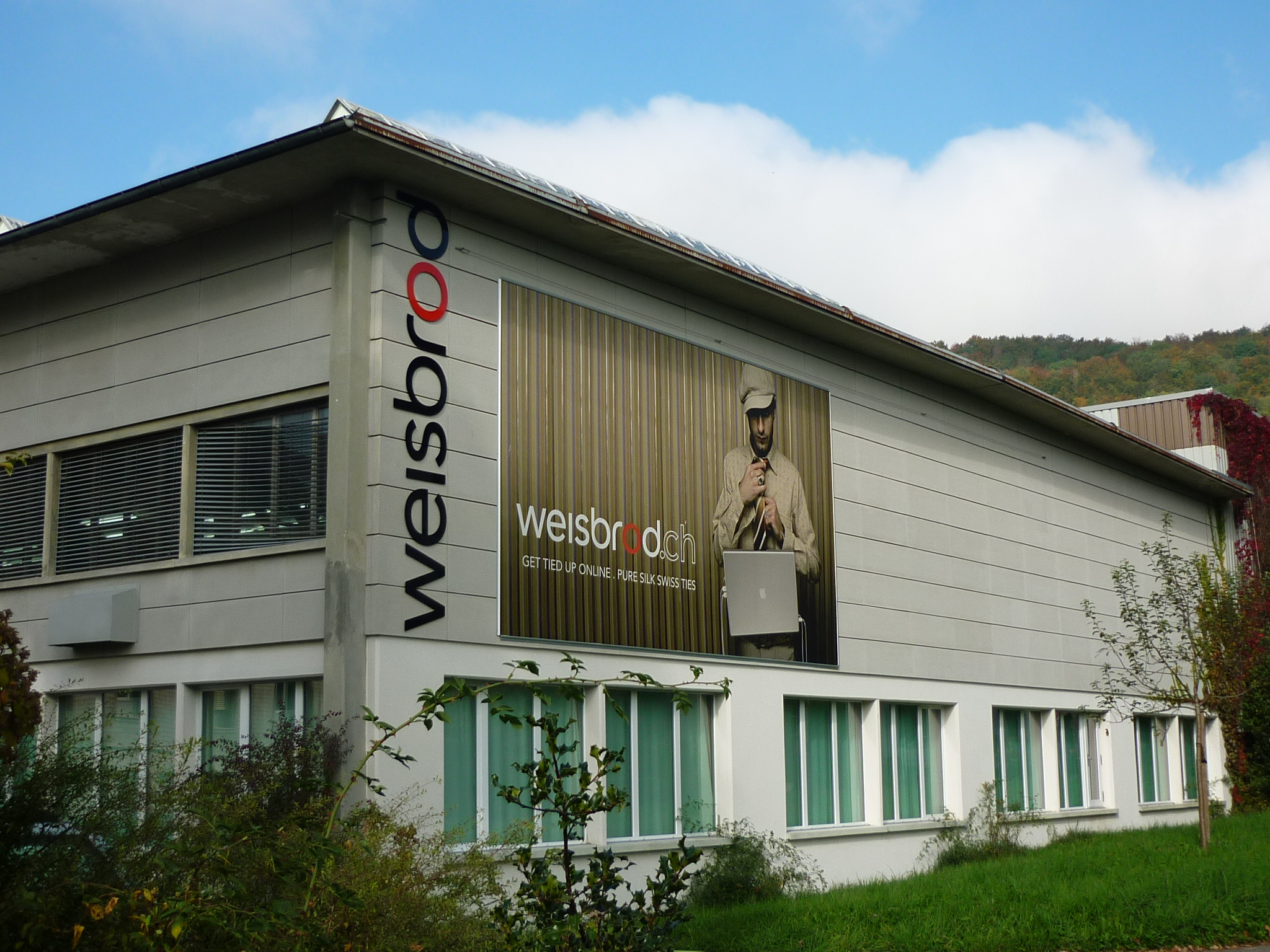 Silk factory, founded in 1825, Hausen am Albis ZH, Switzerland